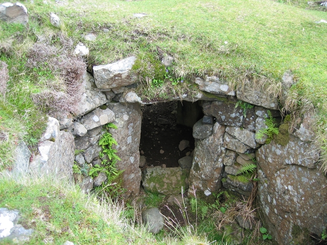 Chambered Cairn at Rubh' an Dunain. The top was left open on this cairn after it was excavated in the 1930s. Six bodies were found in this chamber. The hole in the centre is the start of the passage to the outside.